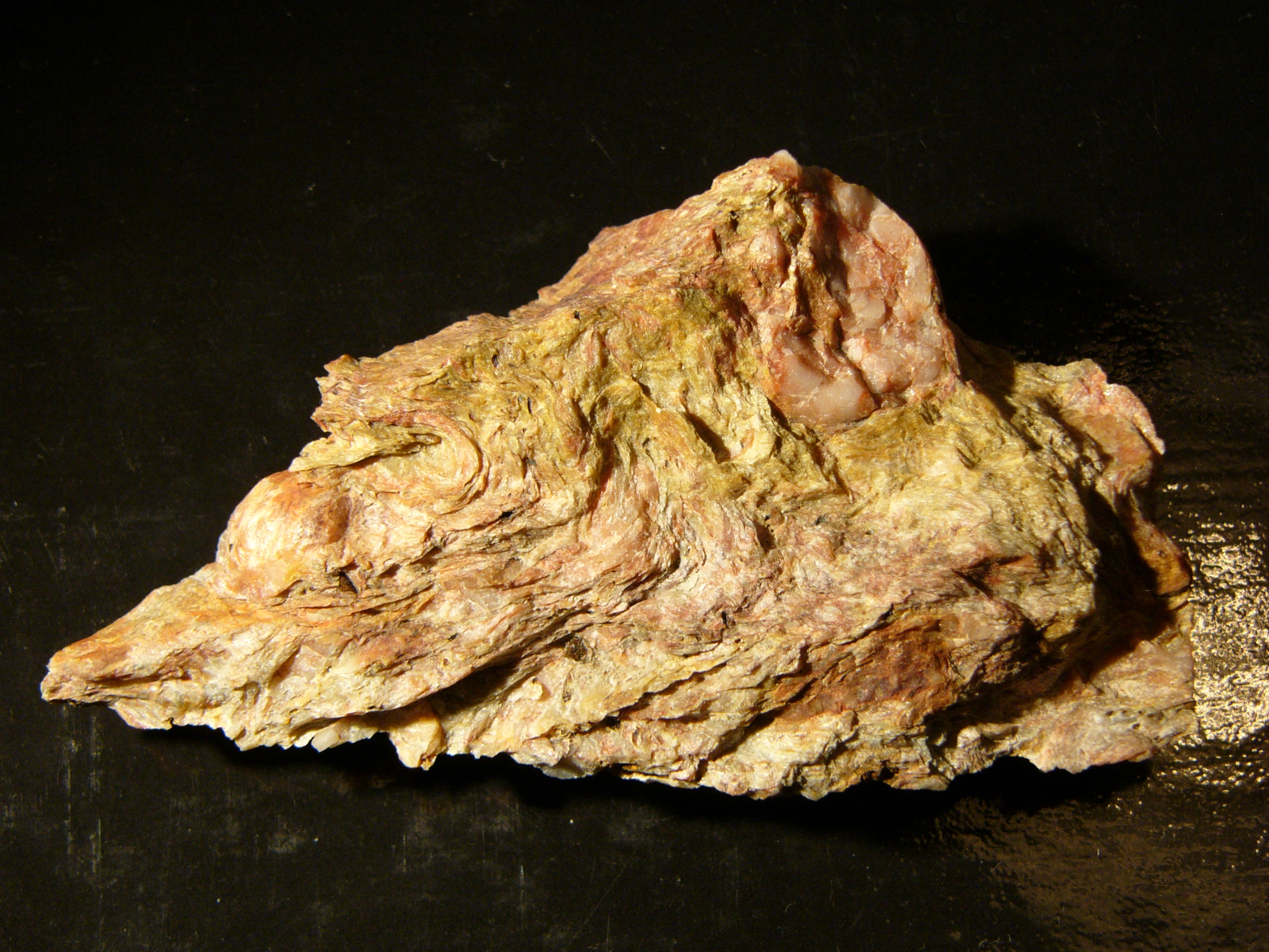 Granite porphyry from Rešovské vodopády (Czech Republic).